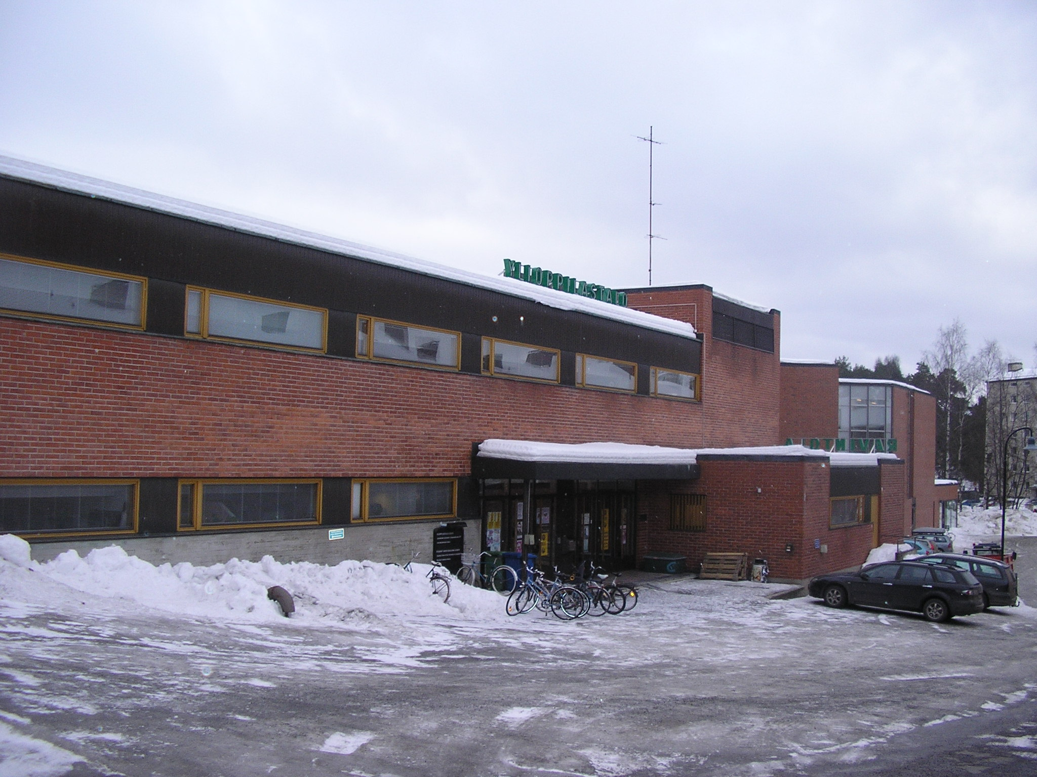 Student union building Ilokivi in Jyväskylä, Finland